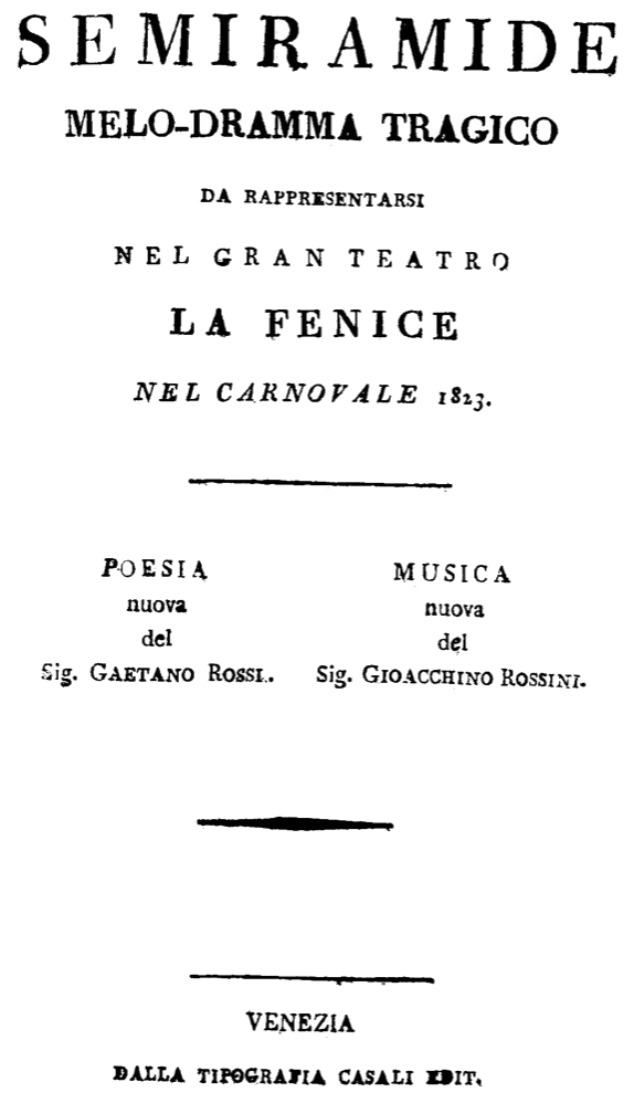 Gioachino Rossini - Semiramide - titlepage of the libretto - Venice 1823